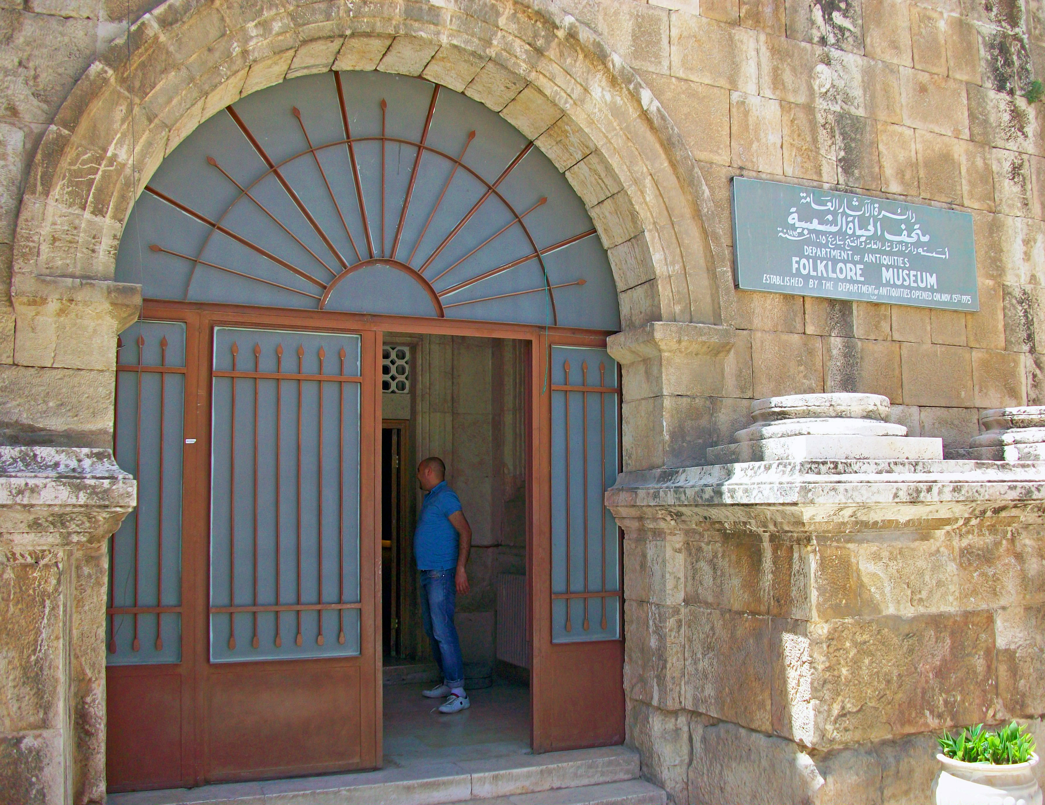 Entrance to the Jordanian Folklore Museum near the Roman theater at Amman Citadel